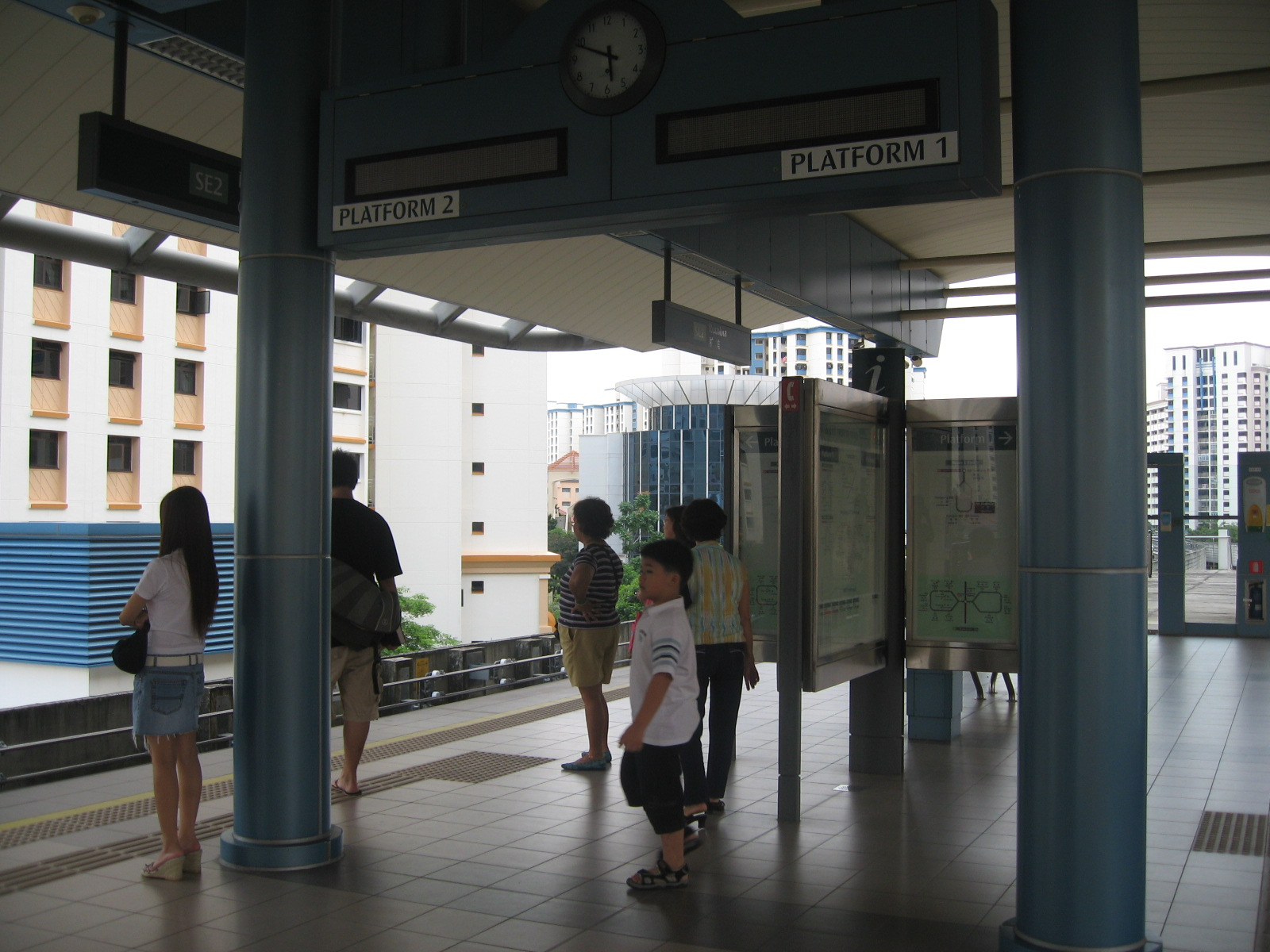 Rumbia LRT Station.